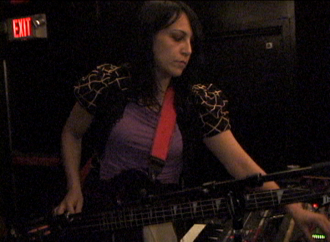 M.V. Carbon of Metalux performing at Cake Shop, NYC on November 9, 2007 Video still from PUNKCAST#1224 (in DV aspect) Credit: My own work Wwwhatsup (talk) 08:56, 24 November 2007 (UTC)